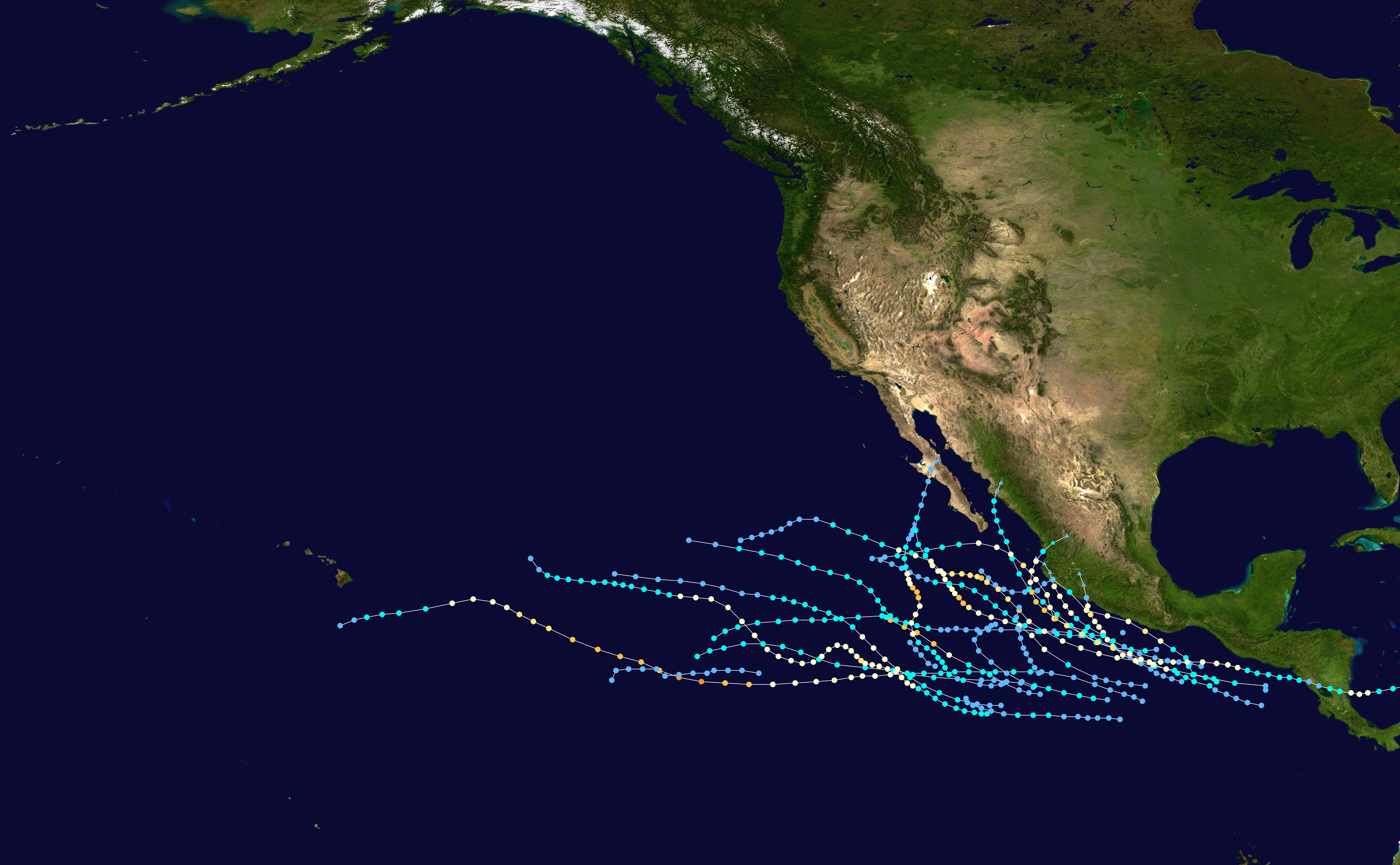 This map shows the tracks of all tropical cyclones in the 1971 Pacific hurricane season. The points show the location of each storm at 6-hour intervals. The colour represents the storm's maximum sustained wind speeds as classified in the Saffir-Simpson Hurricane Scale (see below), and the shape of the data points represent the type of the storm. Saffir–Simpson hurricane wind scale Tropical depression≤38 mph≤62 km/h Category 3111–129 mph178–208 km/h Tropical storm39–73 mph63–118 km/h Category 4130–156 mph209–251 km/h Category 174–95 mph119–153 km/h Category 5≥157 mph≥252 km/h Category 296–110 mph154–177 km/h Unknown Storm typeTropical cycloneSubtropical cycloneExtratropical cyclone / Remnant low / Tropical disturbance